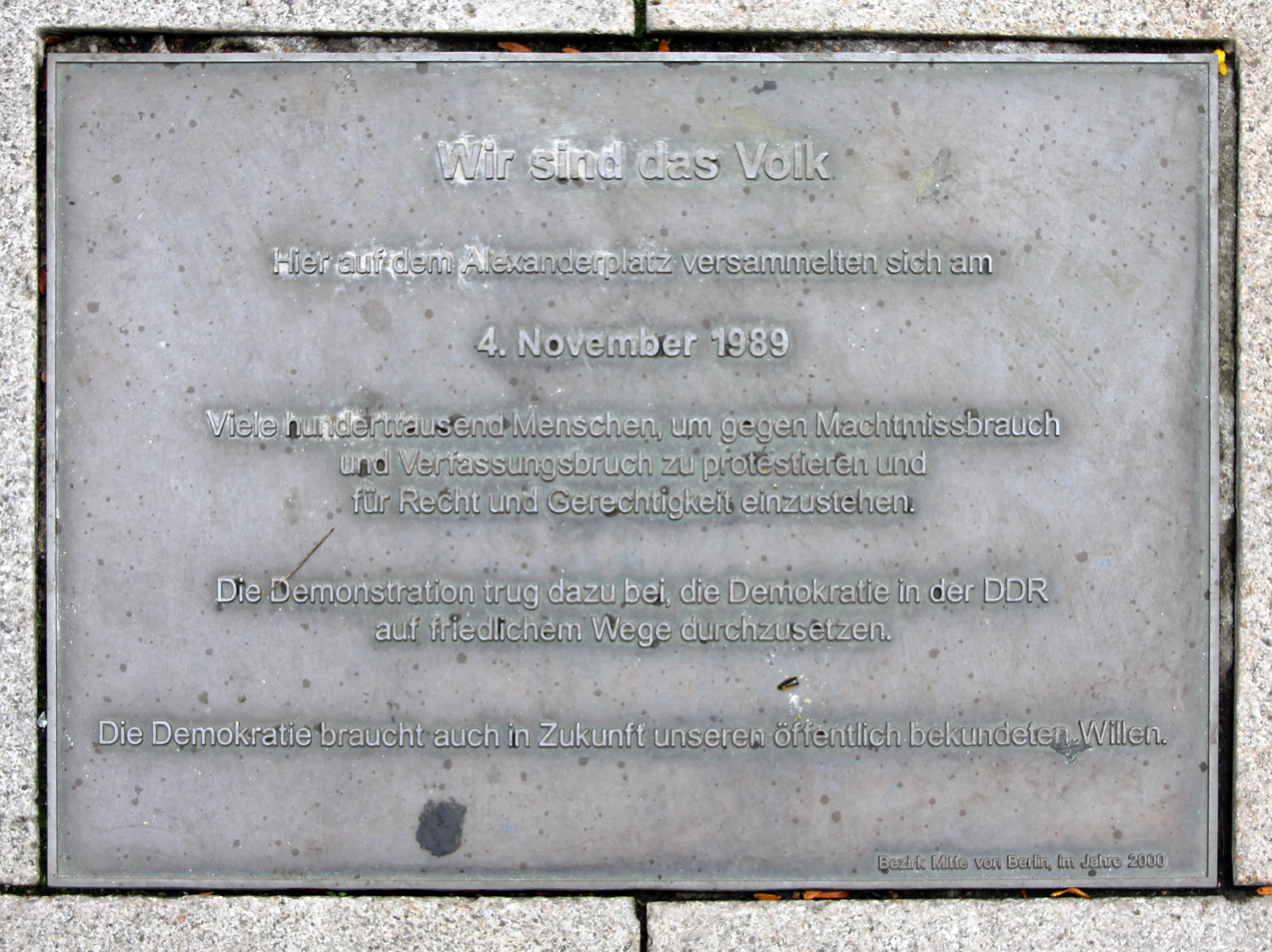 Memorial plaque, Wir sind das Volk, Alexanderplatz, Berlin-Mitte, Deutschland